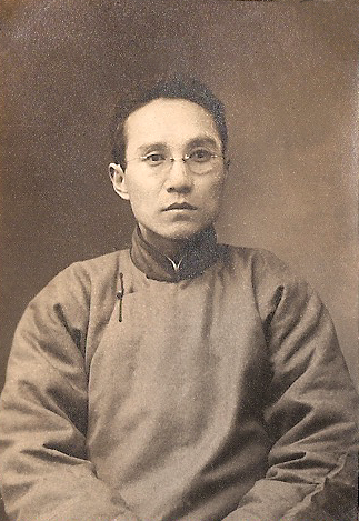 Li Zhaofu (1887－1951)